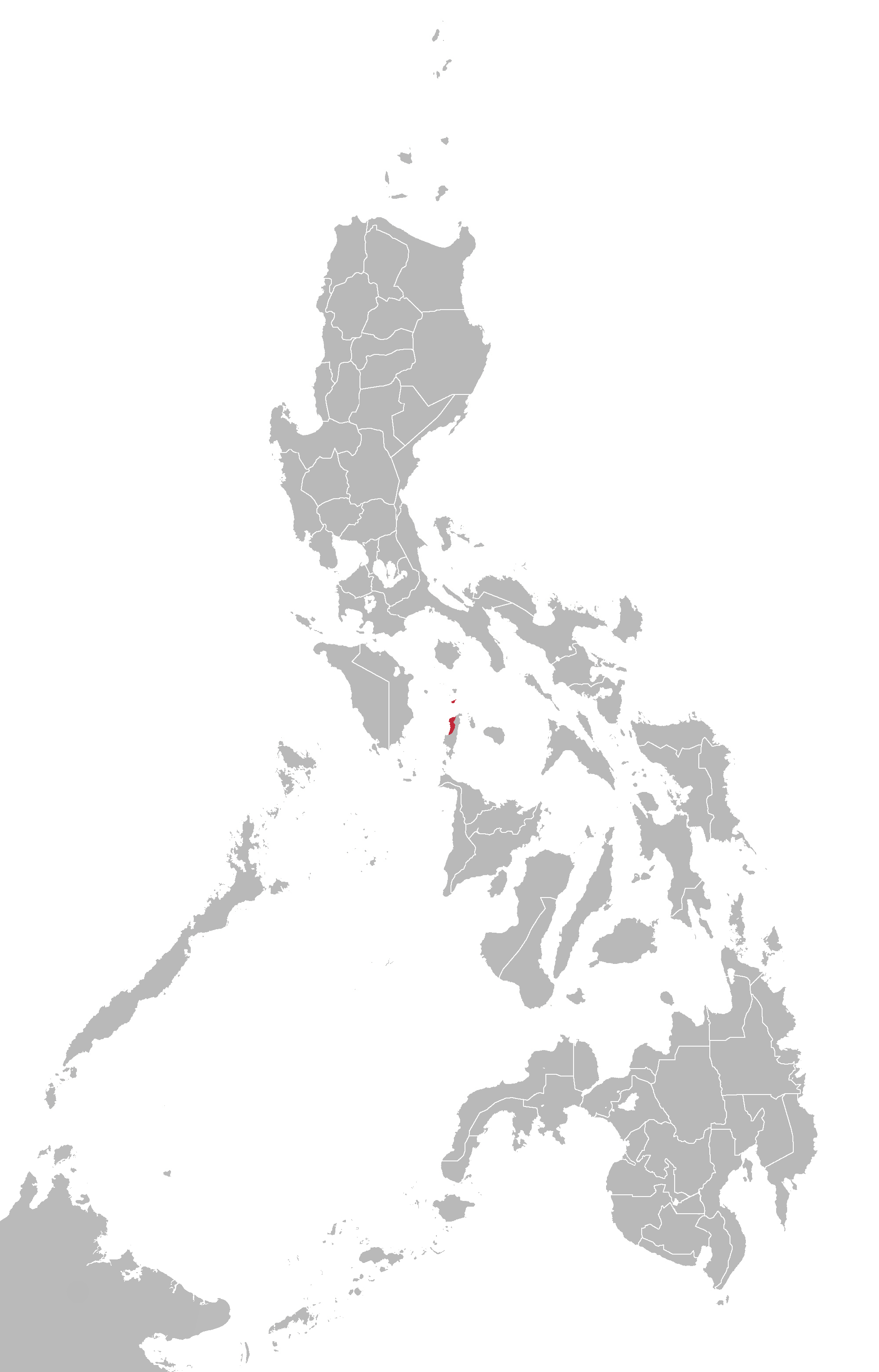 Bantoanon language map based on Ethnologue.png